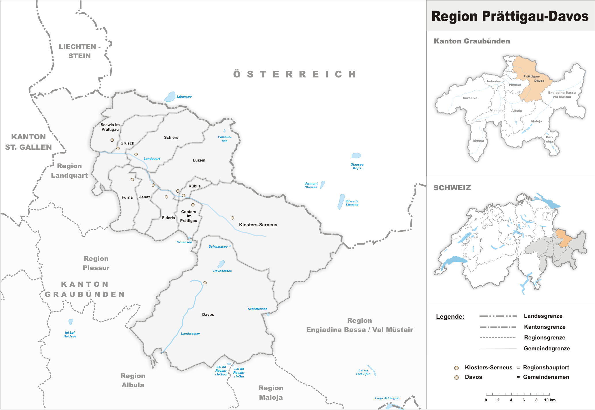 Municipalities in the district of Prättigau-Davos